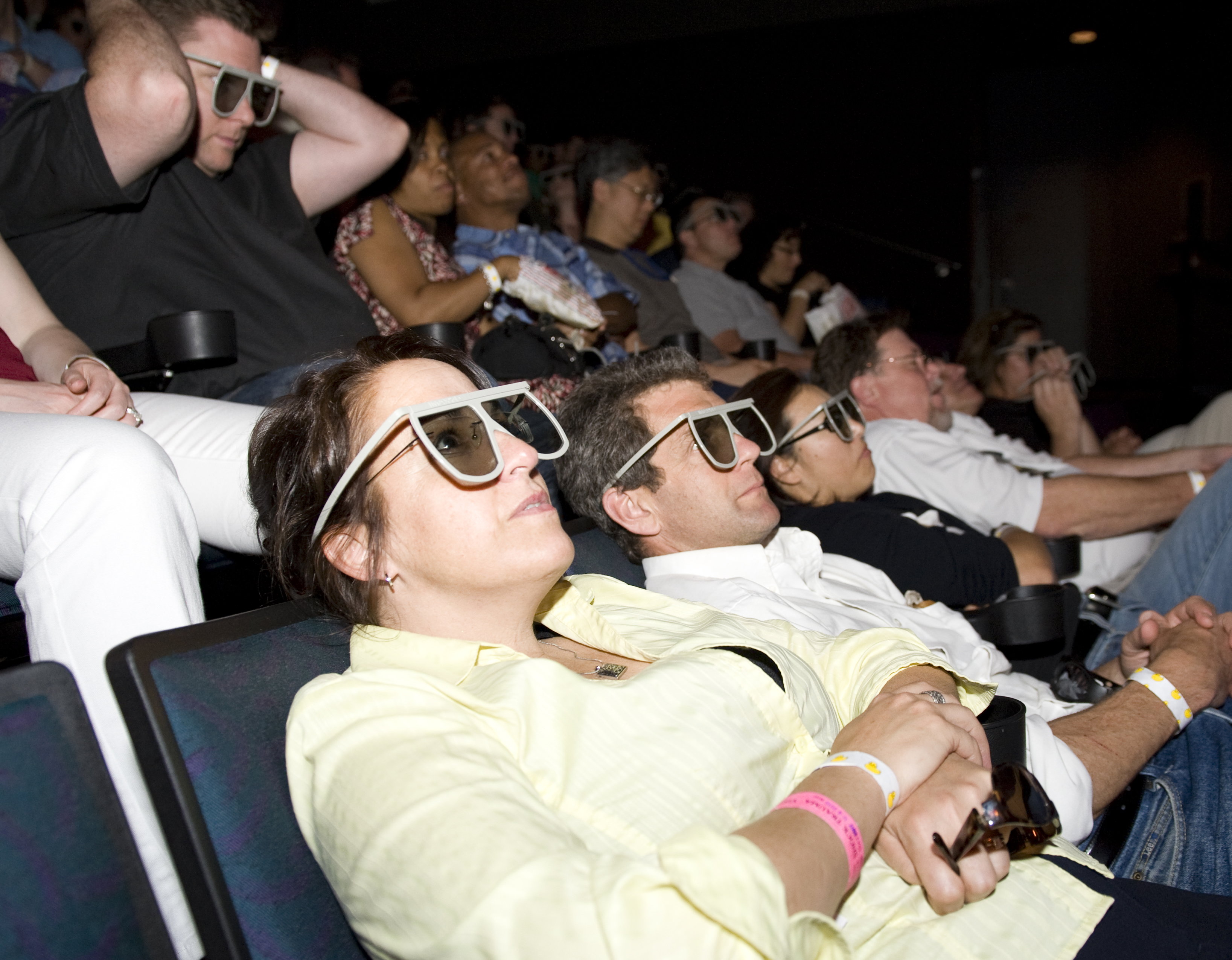 Attendees enjoy a special HST 3D IMAX Screening at the Maryland Science Center in Baltimore, MD on May 4, 2010. Credit: NASA/GSFC/Bill Hrybyk NASA Goddard Space Flight Center] is home to the nation's largest organization of combined scientists, engineers and technologists that build spacecraft, instruments and new technology to study the Earth, the sun, our solar system, and the universe.